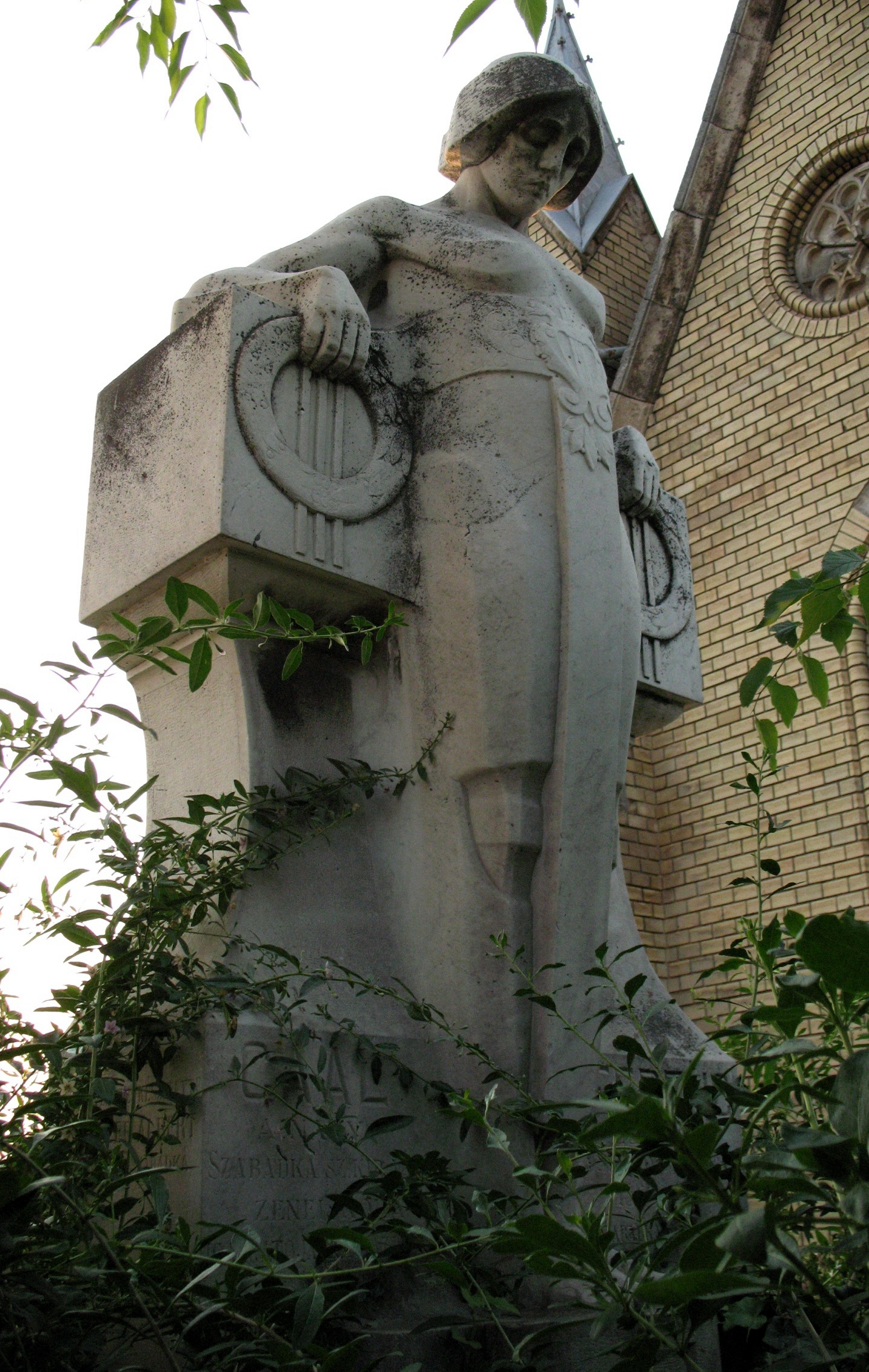 grave